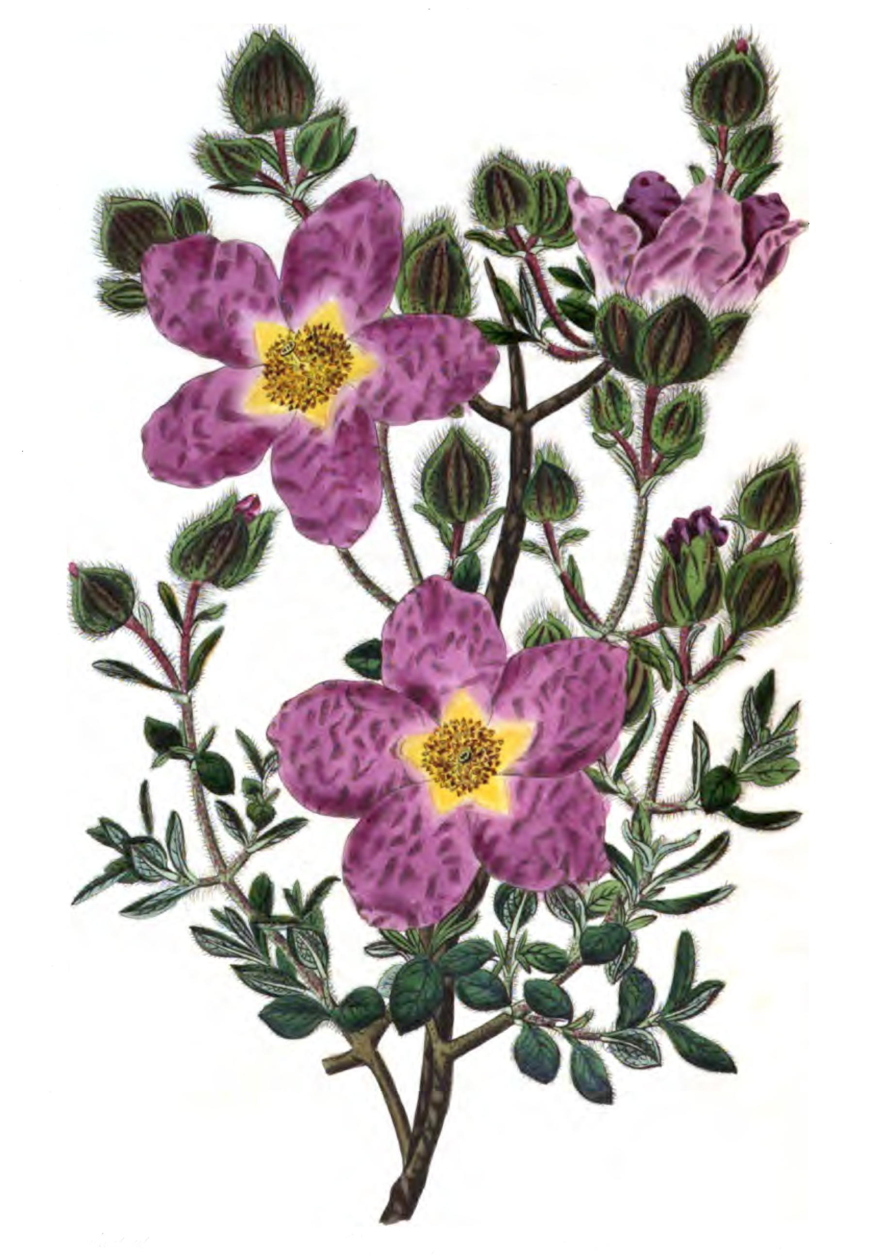 Illustration of Cistus heterophyllus (probably subsp. heterophyllus as said to be "from Algeria")